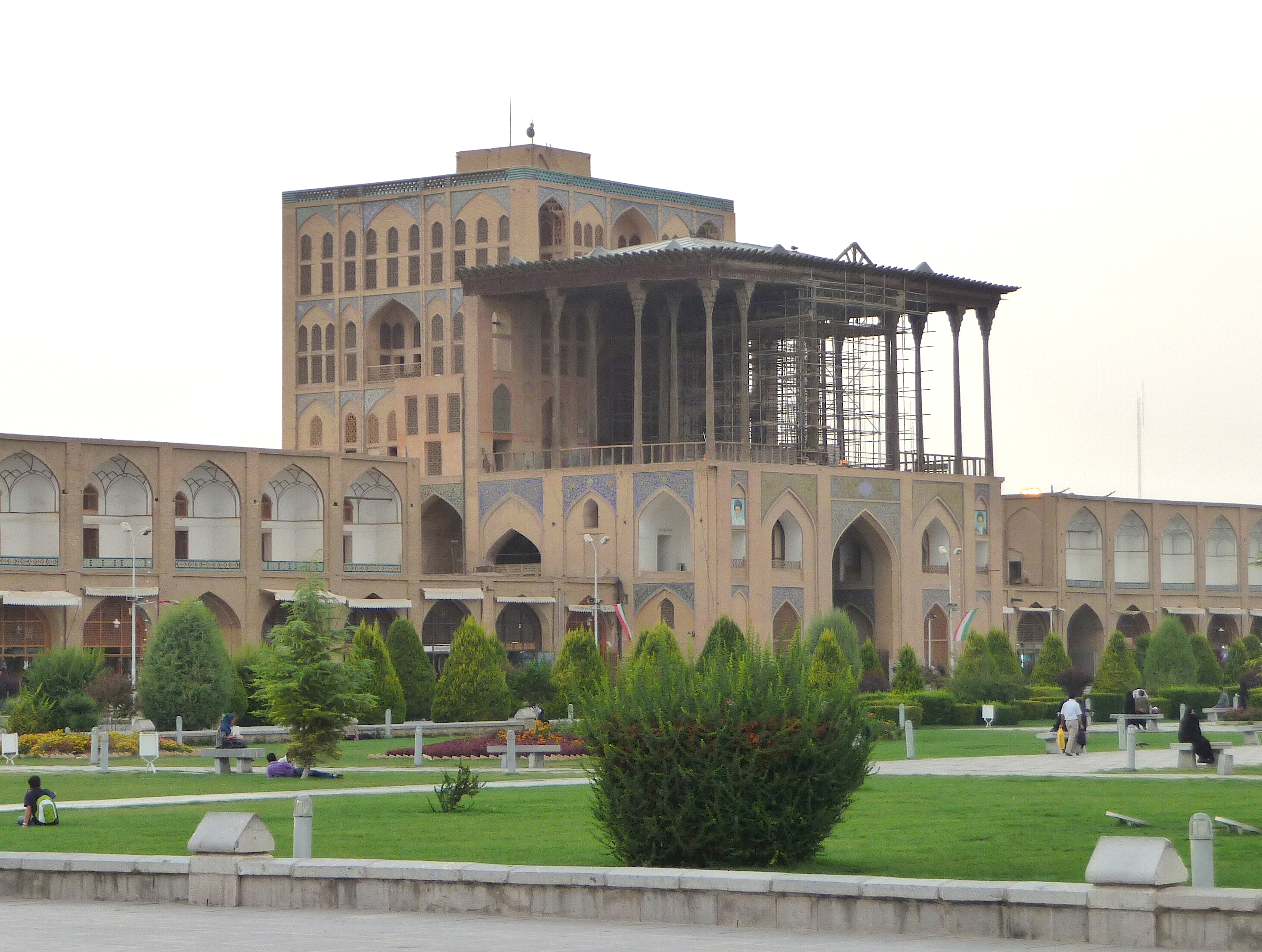 The Ali Qapu Palace in Esfahan (Esfahan, Iran).